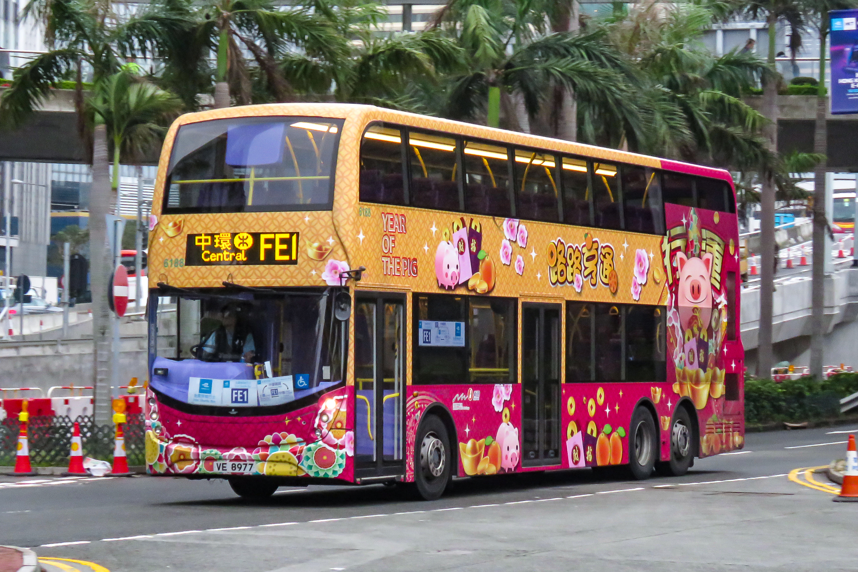 FE1 is a free shuttle bus route around Central during the Hong Kong ePrix 2019. Today, this "Year of the Pig" super jumbo joined this shuttle.